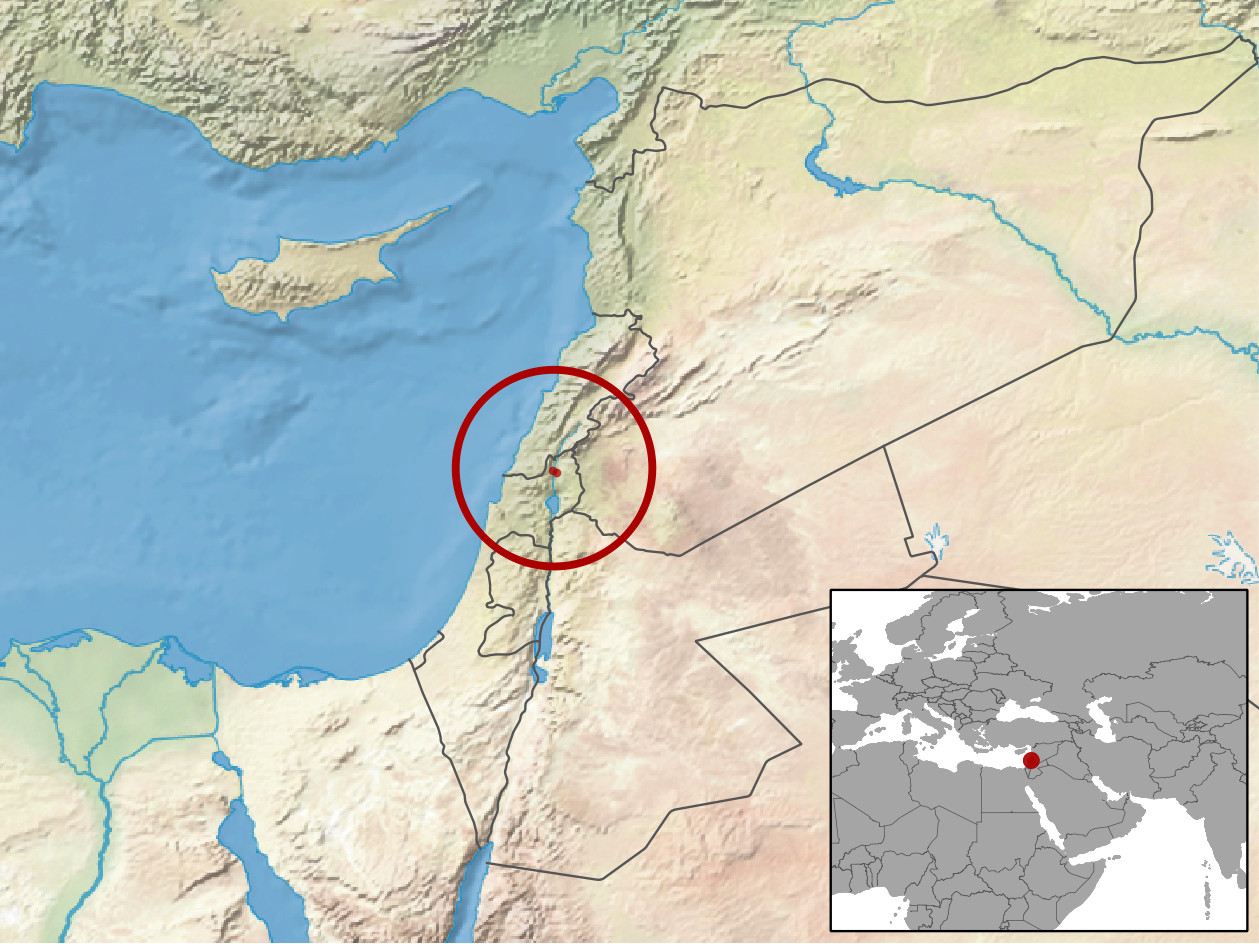 geographic distribution of Discoglossus nigriventer